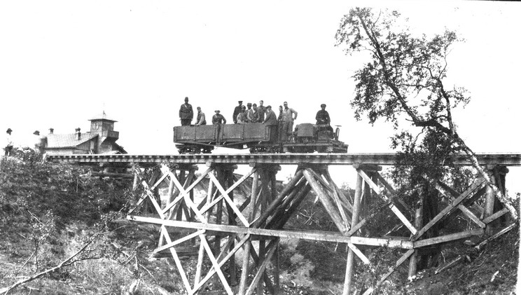 55 Trestle on Murmansk Light Railway